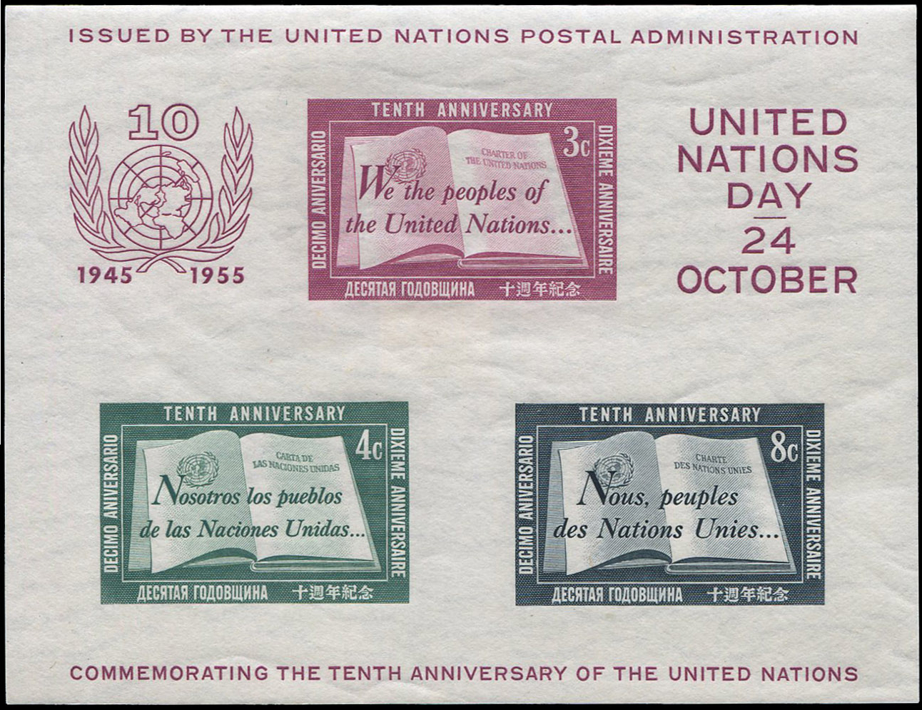 The first postage souvenir sheet of United Nations (Scott#38, 1955)